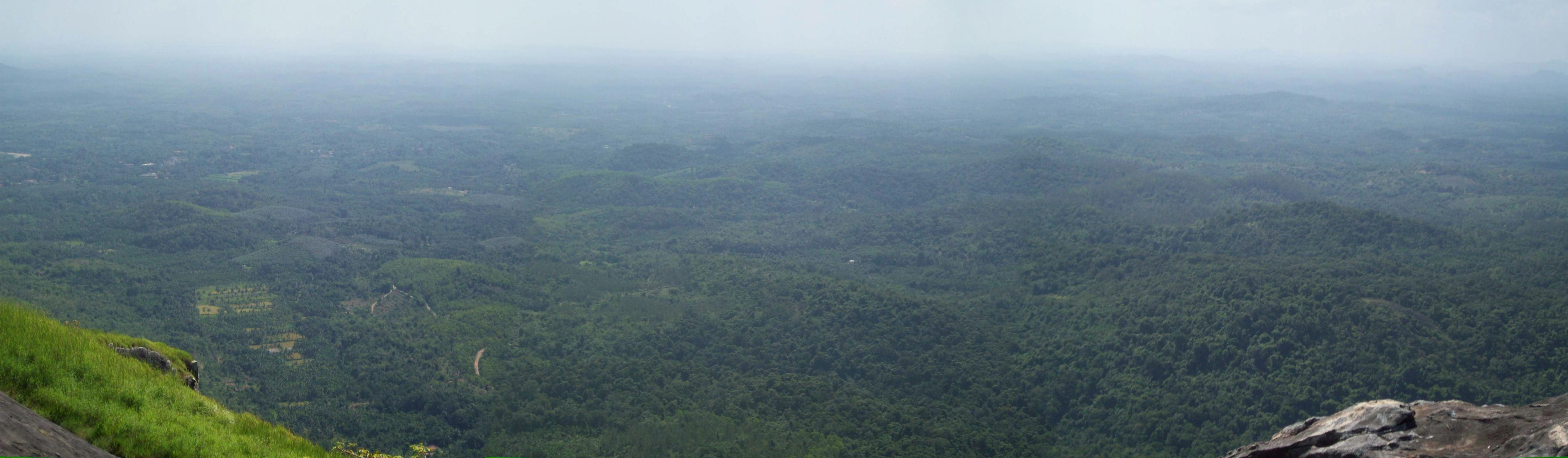 View from top of the Jamalabad cliff.